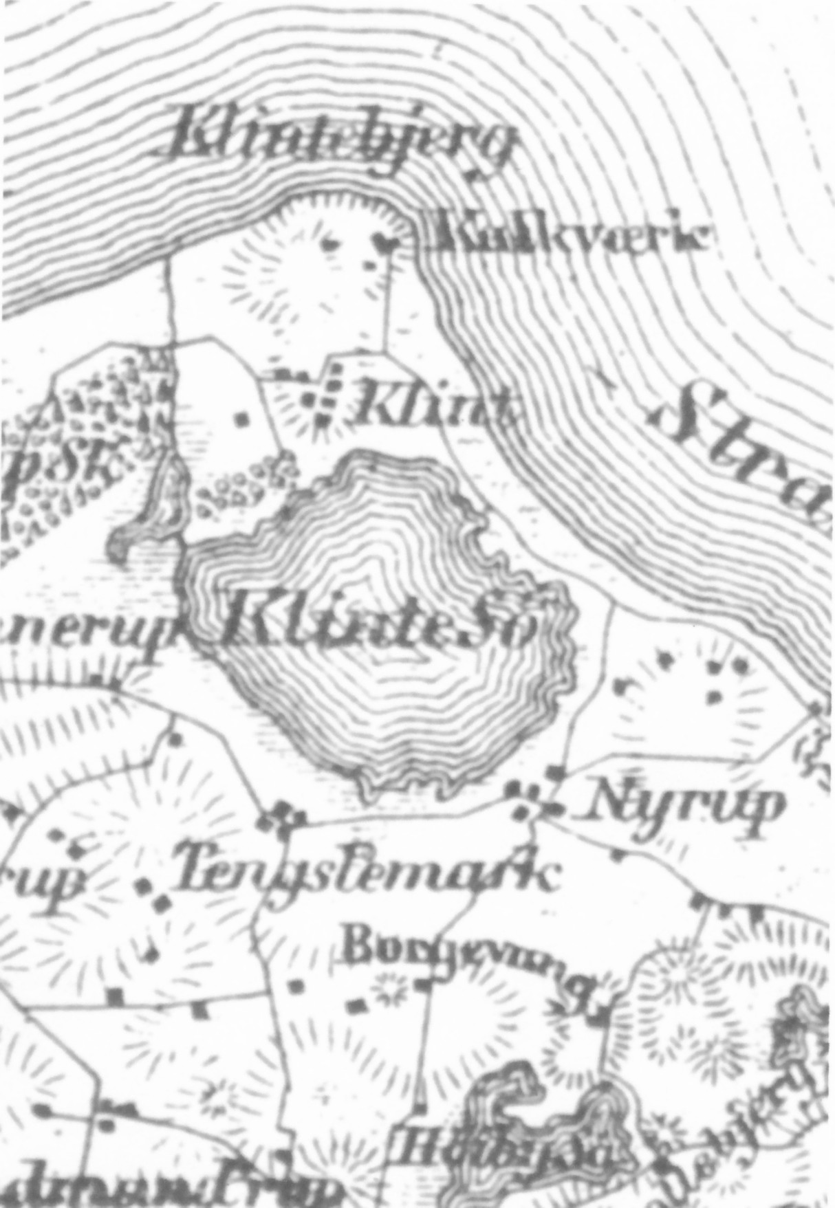 Klinte Sø on map from 1855.